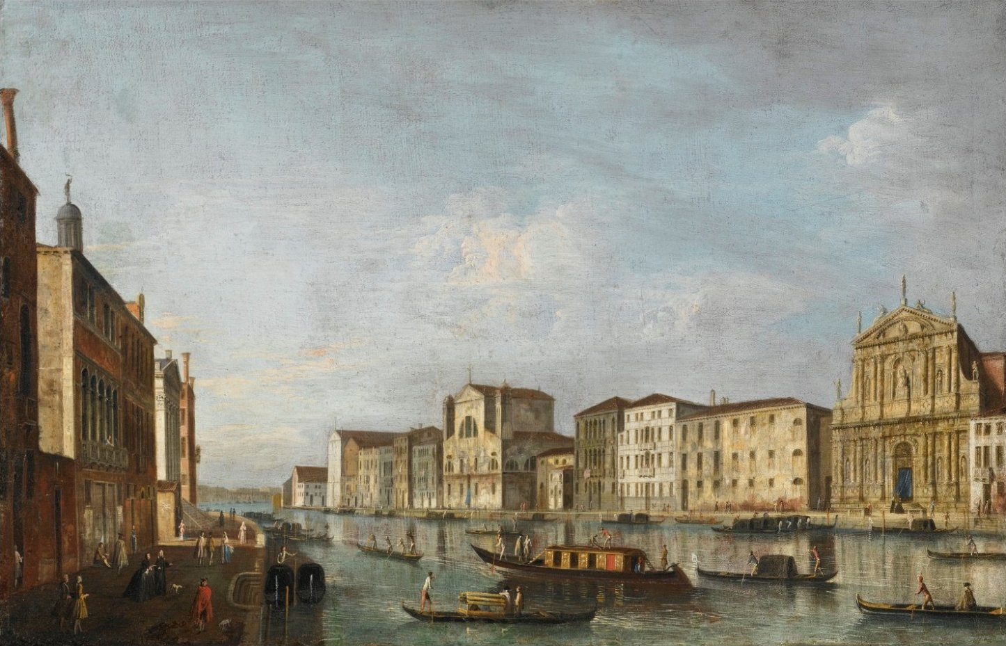 Venice, A View of the Grand Canal with the Churches of Santa Lucia and the Scalzi by Apollonio Domenichini, formerly called the Master of the Langmatt Foundation Views, c. 1740-1770, oil on canvas, 64.8 by 100.5 cm.